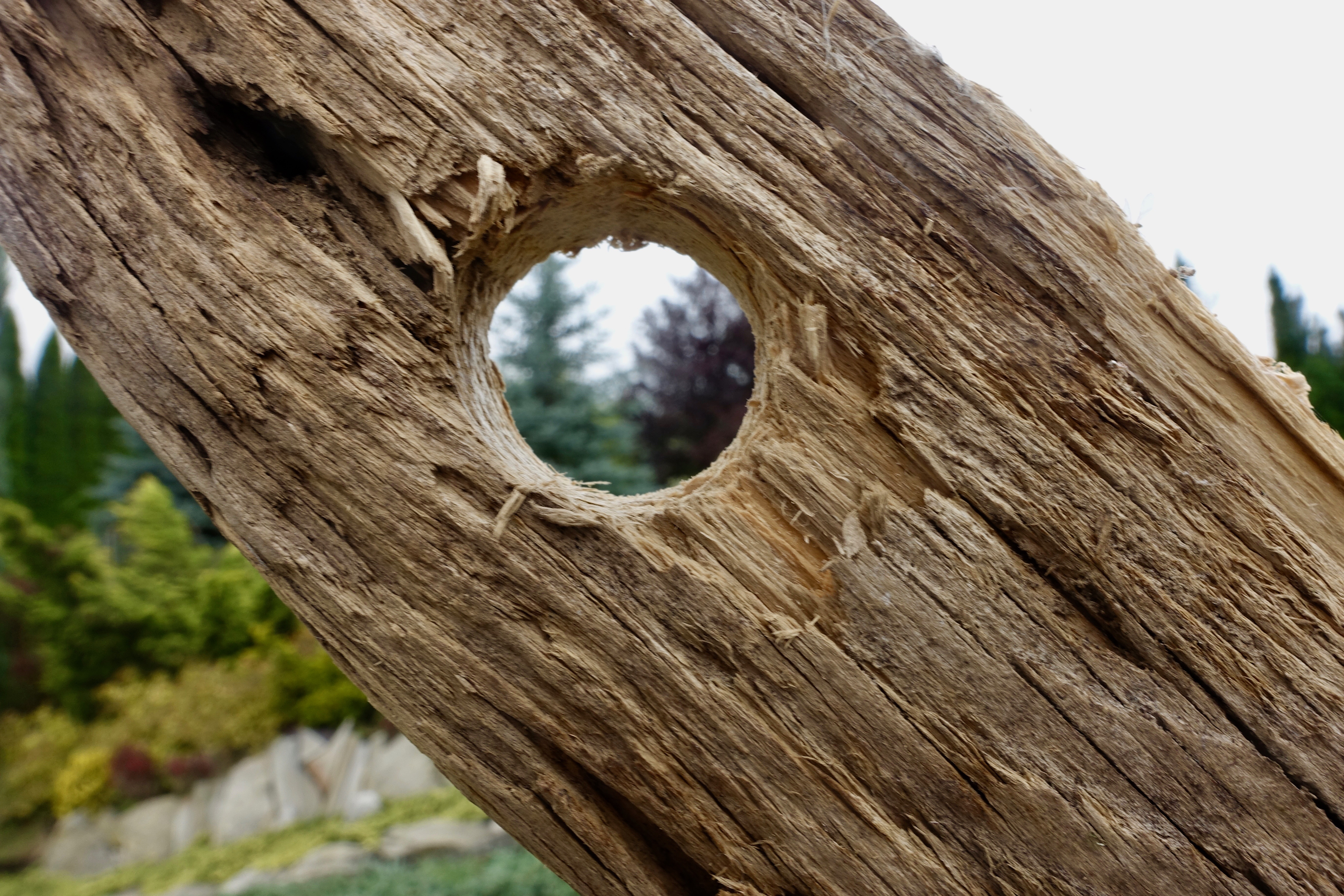 Hole in a piece of wood, diameter 22 mm